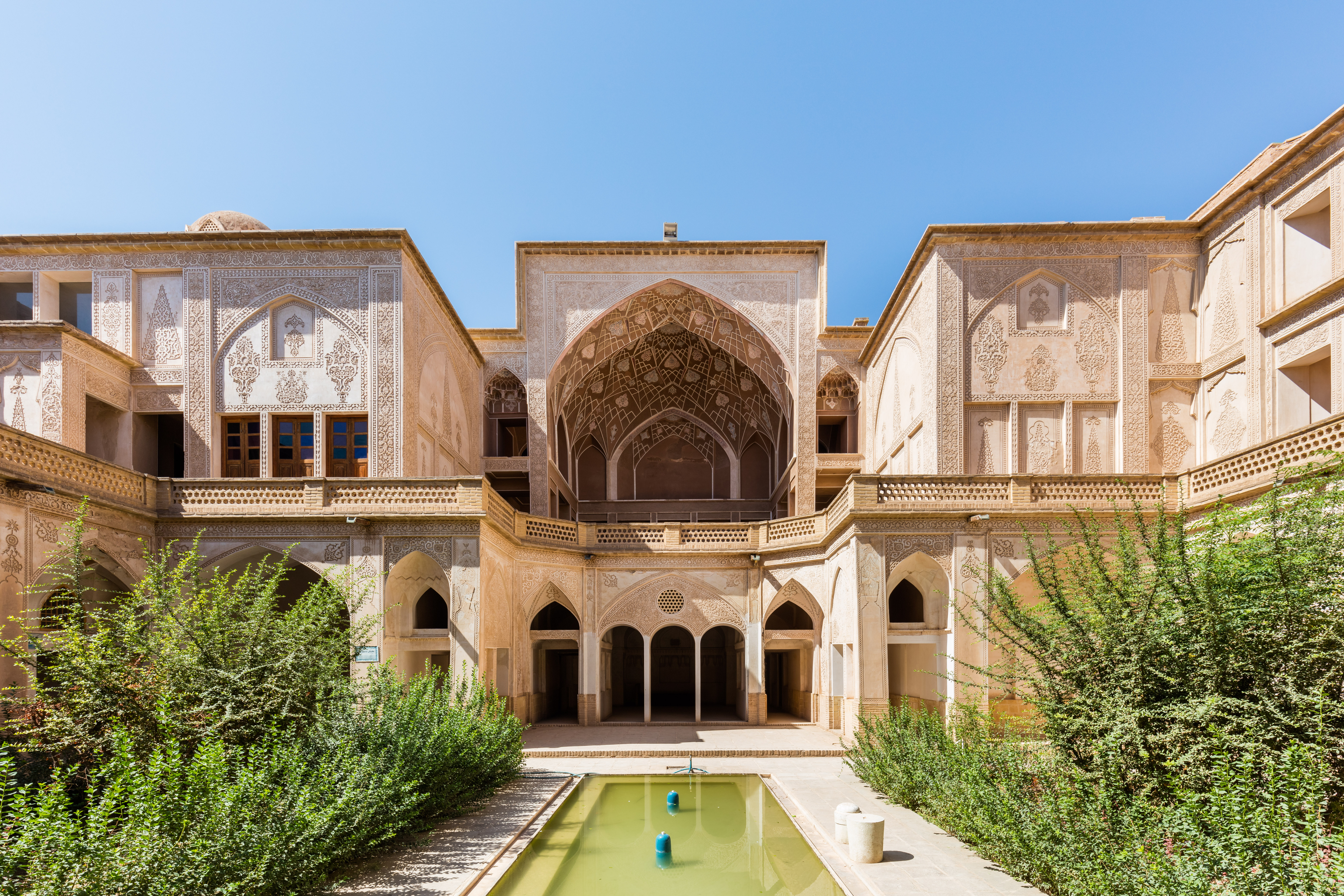 Abbasi Historic House, Kashan, Iran